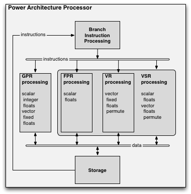 A highly schematic diagram of a generic Power Architecture microprocessor.